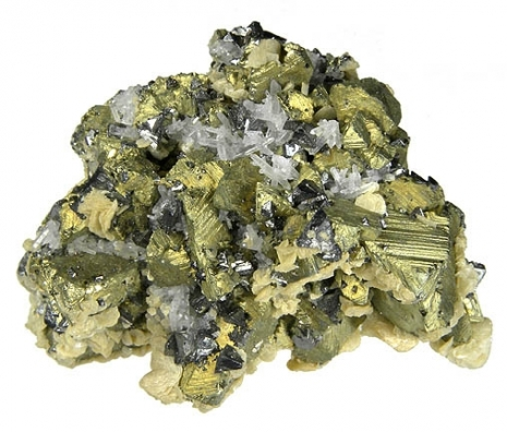 Freibergite, Chalcopyrite, Siderite, Quartz Locality: Eagle Mine, Gilman, Gilman District (Battle Mountain District; Red Cliff District), Eagle County, Colorado, USA (Locality at ) Size: 4.6 x 3.7 x 3.1 cm. Many sharp, attractive, very well-formed, classic, tetrahedral Freibergite crystals up to 2.5 mm are associated with well-formed golden crystals of Chalcopyrite and soft pink-beige "rosettes" of Siderite with minor Quartz. This specimen was a gift from the well-known Colorado collector Hall Miller to Richard Kosnar in late 1983. This piece was analyzed by Hal Miller, and it is indeed Freibergite, not Tennanite or Tetrahedrite. This material is not easy to find on the market, and for the size and quality, it is much more than just a reference specimen of this highly sought after silver-bearing species.